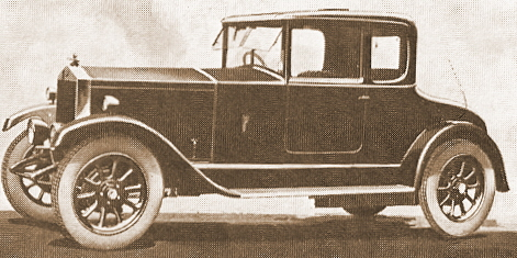 1926 Waverley